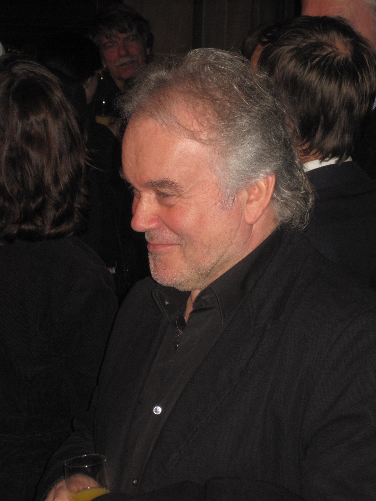 german cinematographer Reinhold Vorschneider